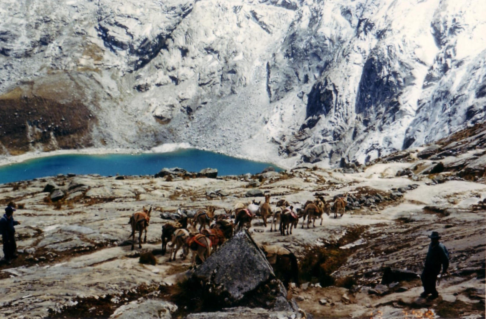 views of PN Huascaran